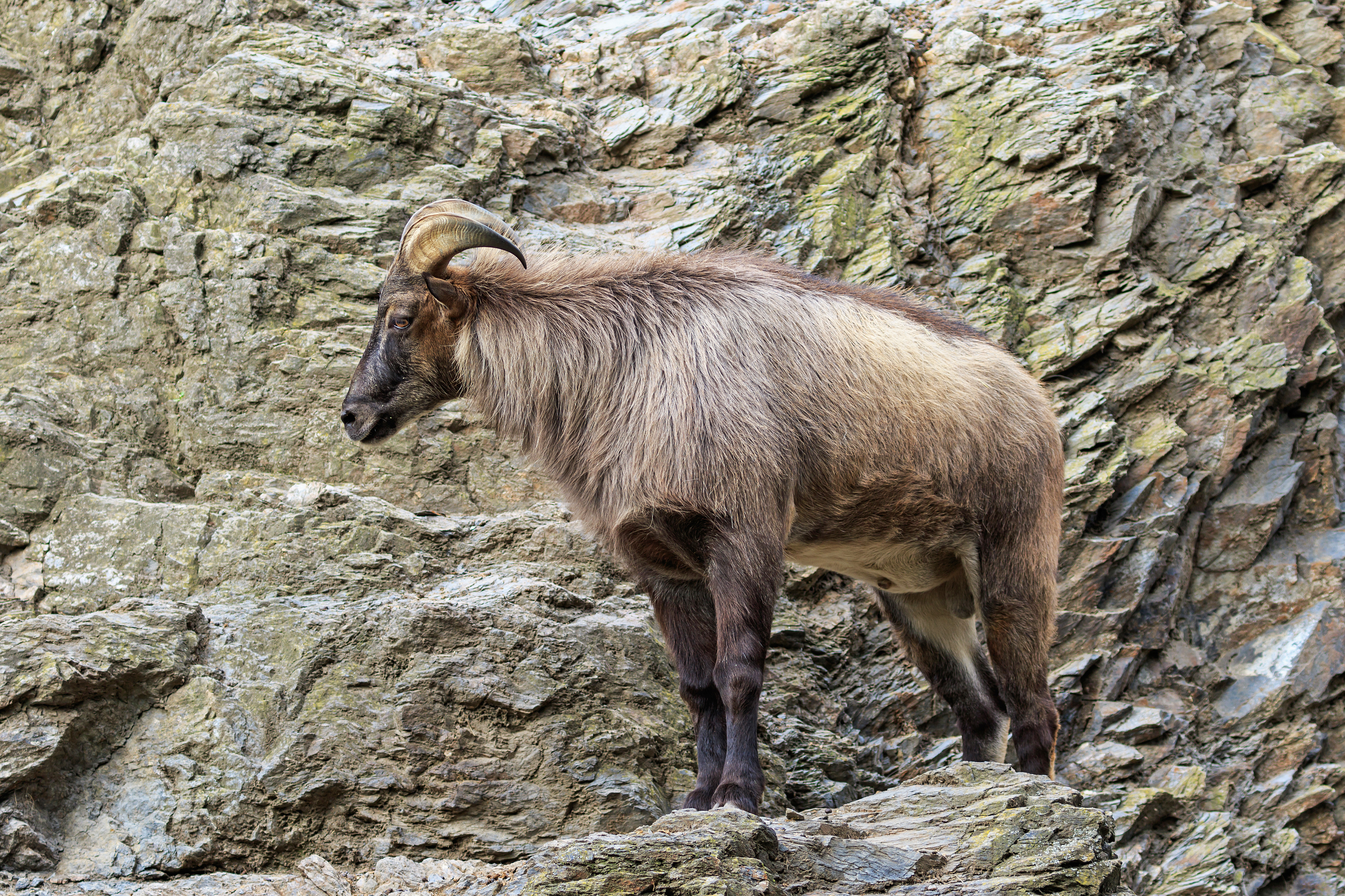 Himalayan tahr in Prague Zoo